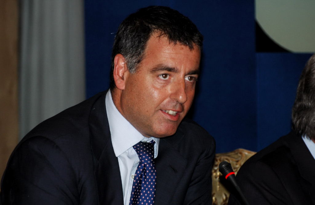 Fernando Napolitano (Naples, September 15, 1964), CEO and Founder of Italian Business & Investment Initiative, ENEL S.p.a. member of Board of Directors